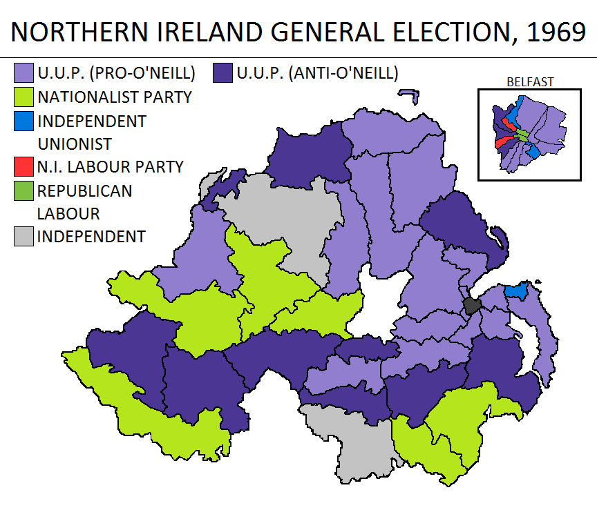 Map showing the result of the 1969 Northern Ireland general election.